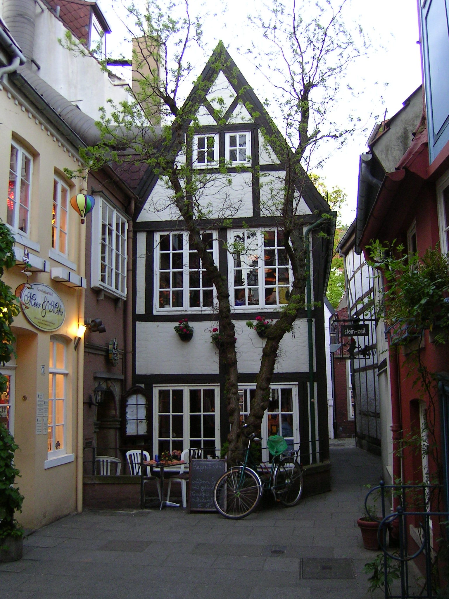 Houses from the 15th and 16th centuries along the narrow alleys in Bremen’s oldest surviving quarter